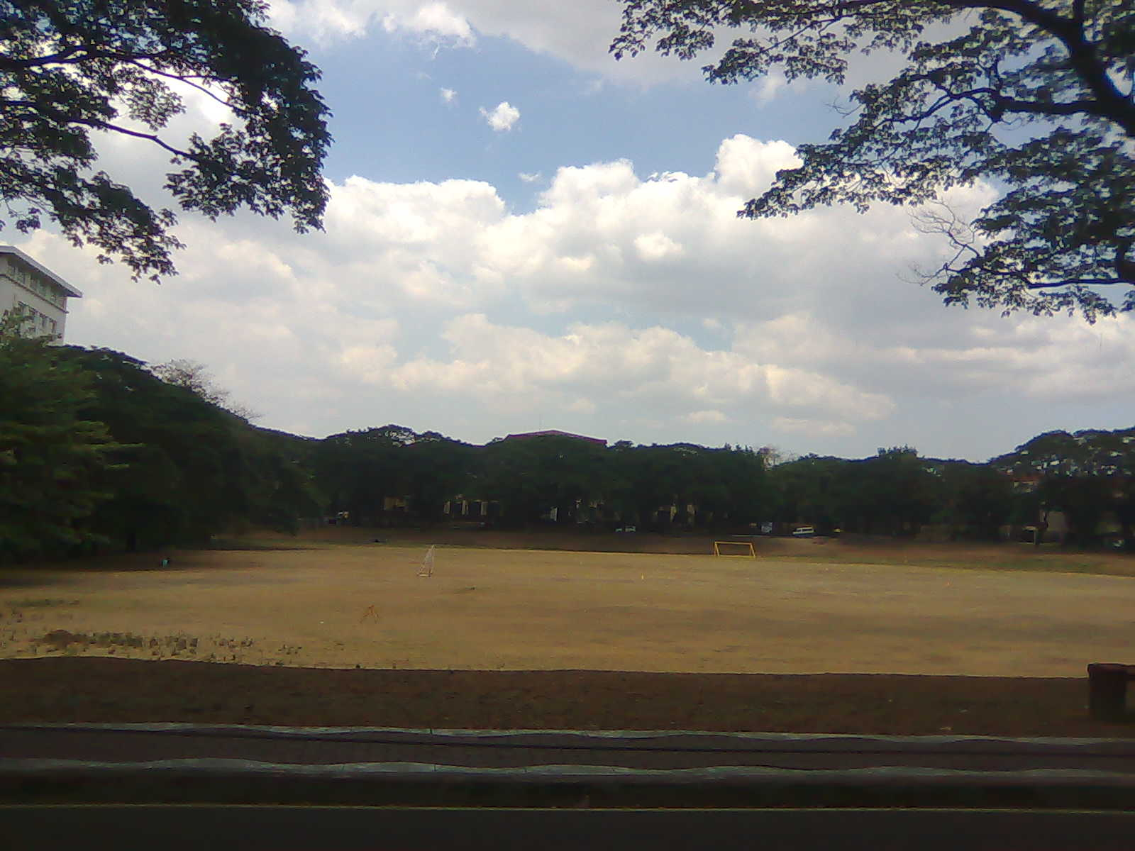 A view of UP Diliman's Sunken Garden taken from inside a jeepney in transit along the Academic Oval.